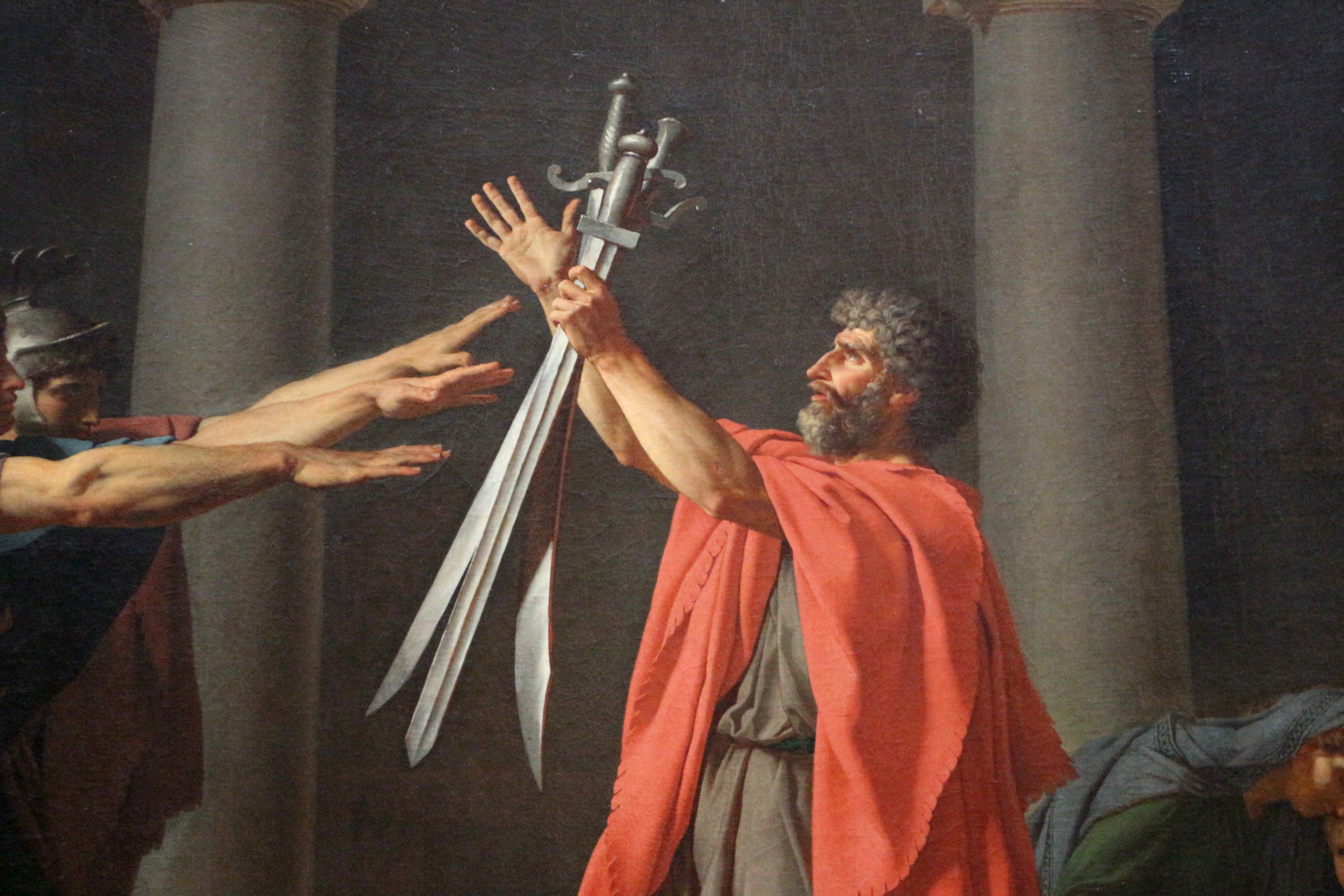 Paintings by Jacques-Louis David in the Louvre